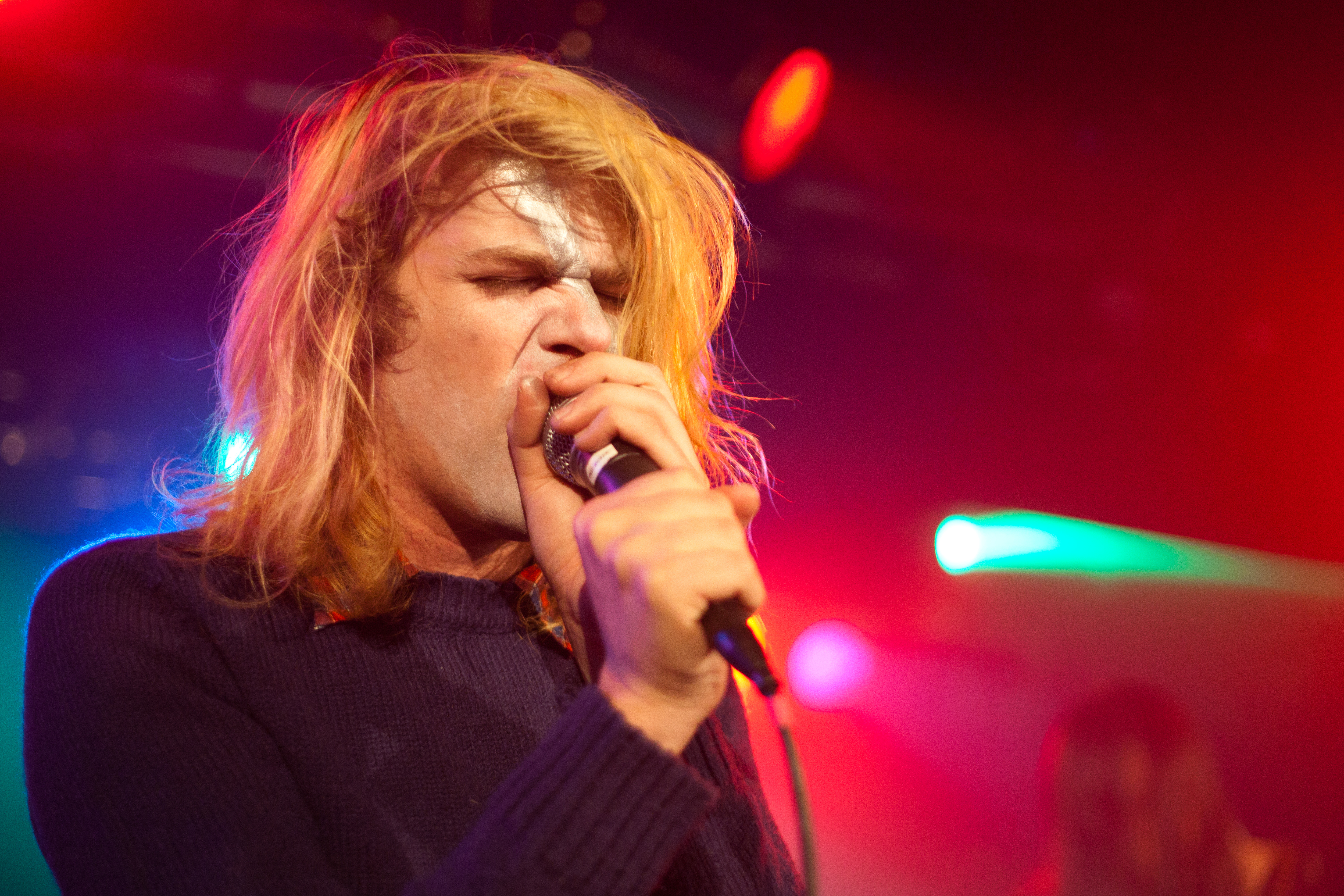 Ariel Pink of Ariel Pink's Haunted Graffiti performing at Debaser in Stockholm, Sweden